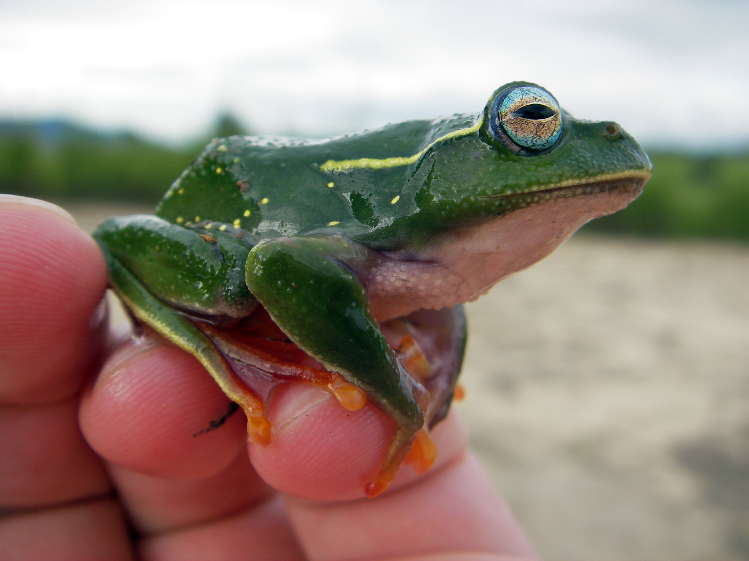 Boophis occidentalis picture taken close to Isalo National Park, Madagascar.